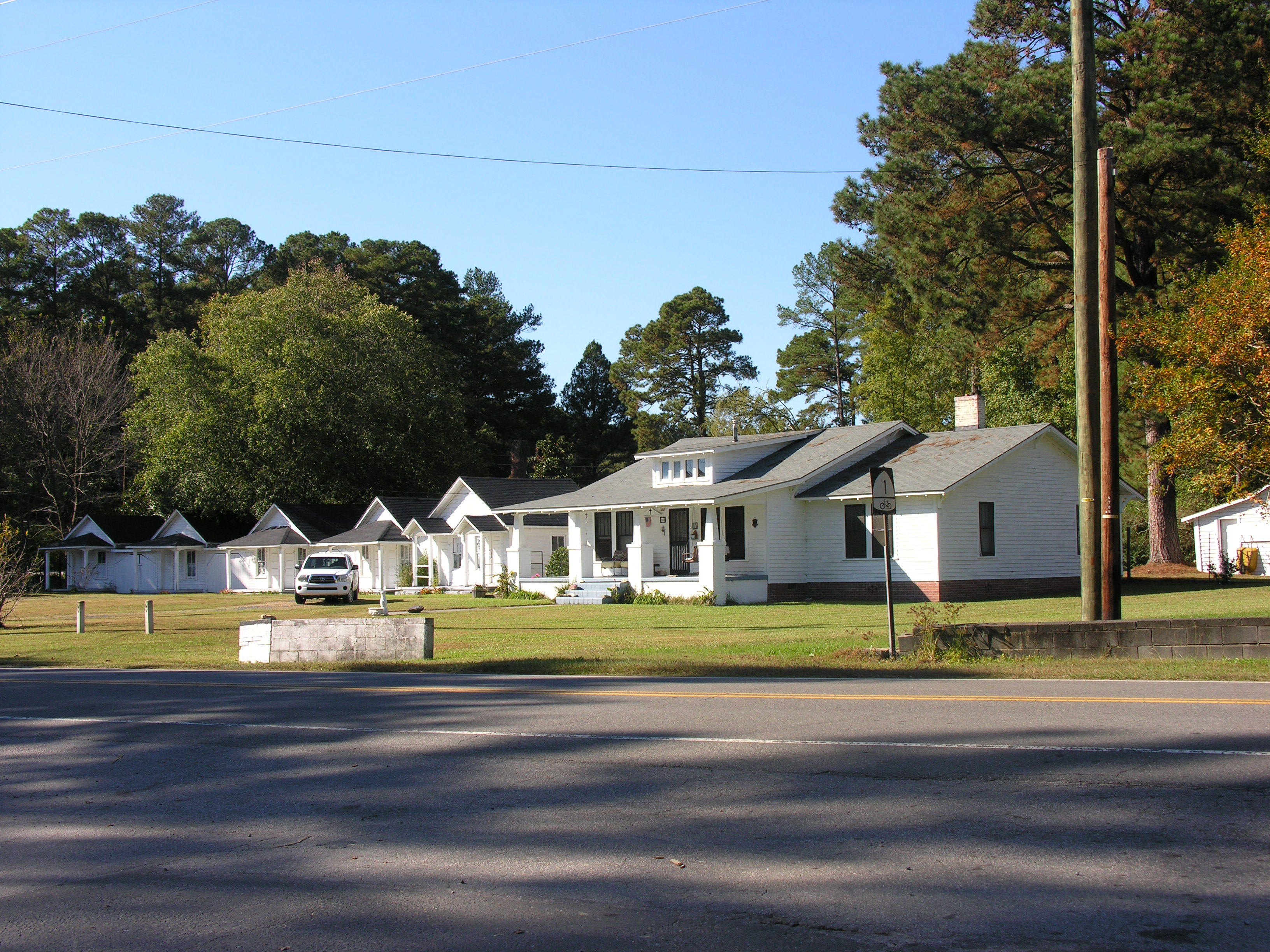 New Hill Historic District, Roughly 0.5 miles (0.80 km) south of the junction of Old U.S. Route 1 and NC 1127, and 2 miles (3.2 km) west of the junction with Old U.S. Route 1 New Hill